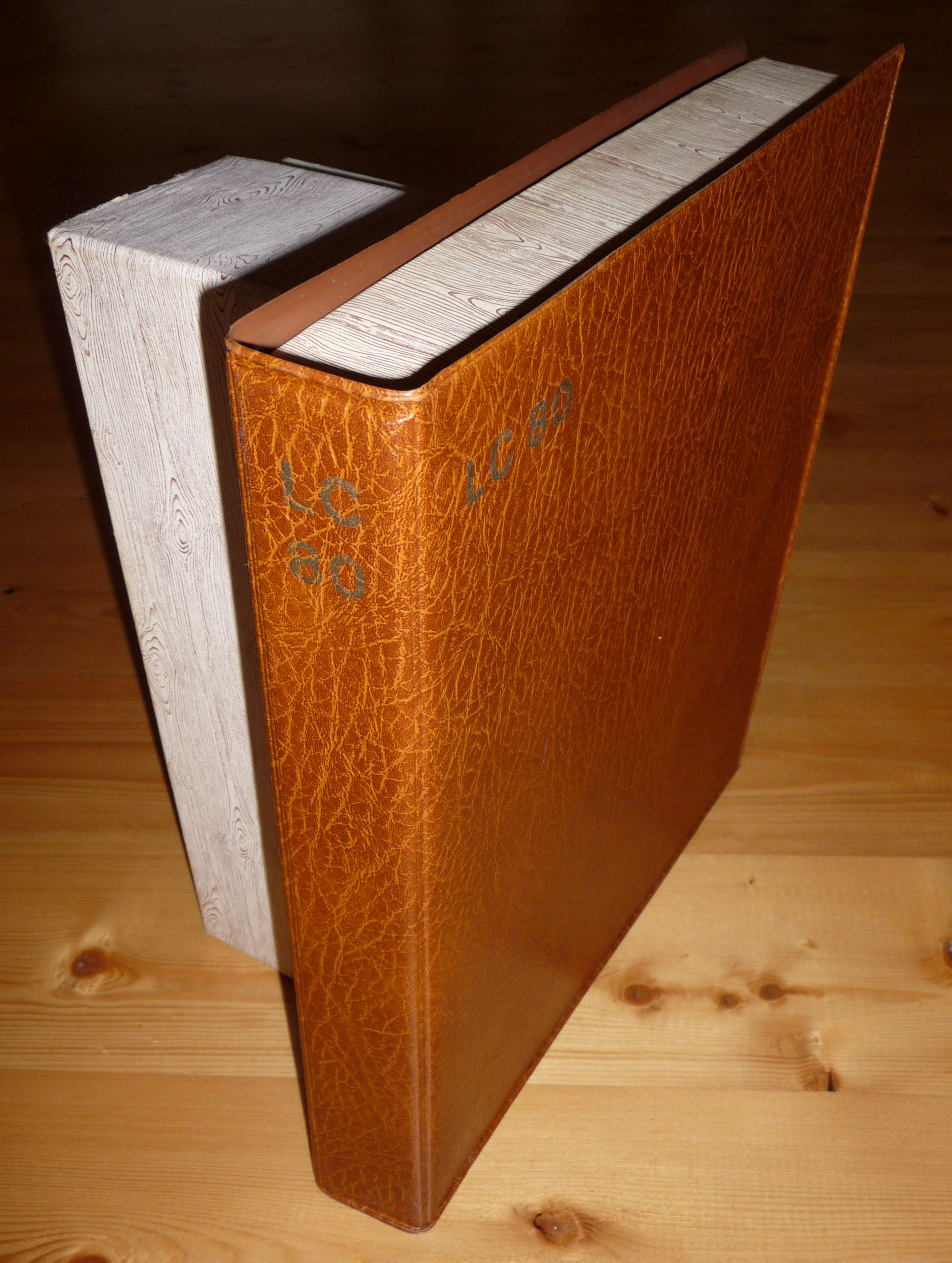 Single-board computer LC80, manufactured by the VEB Mikroelektronik "Karl Marx" Erfurt, 1982